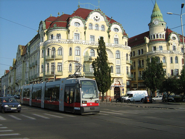 Siemens tram, near the Black Eagle Palace, Oradea